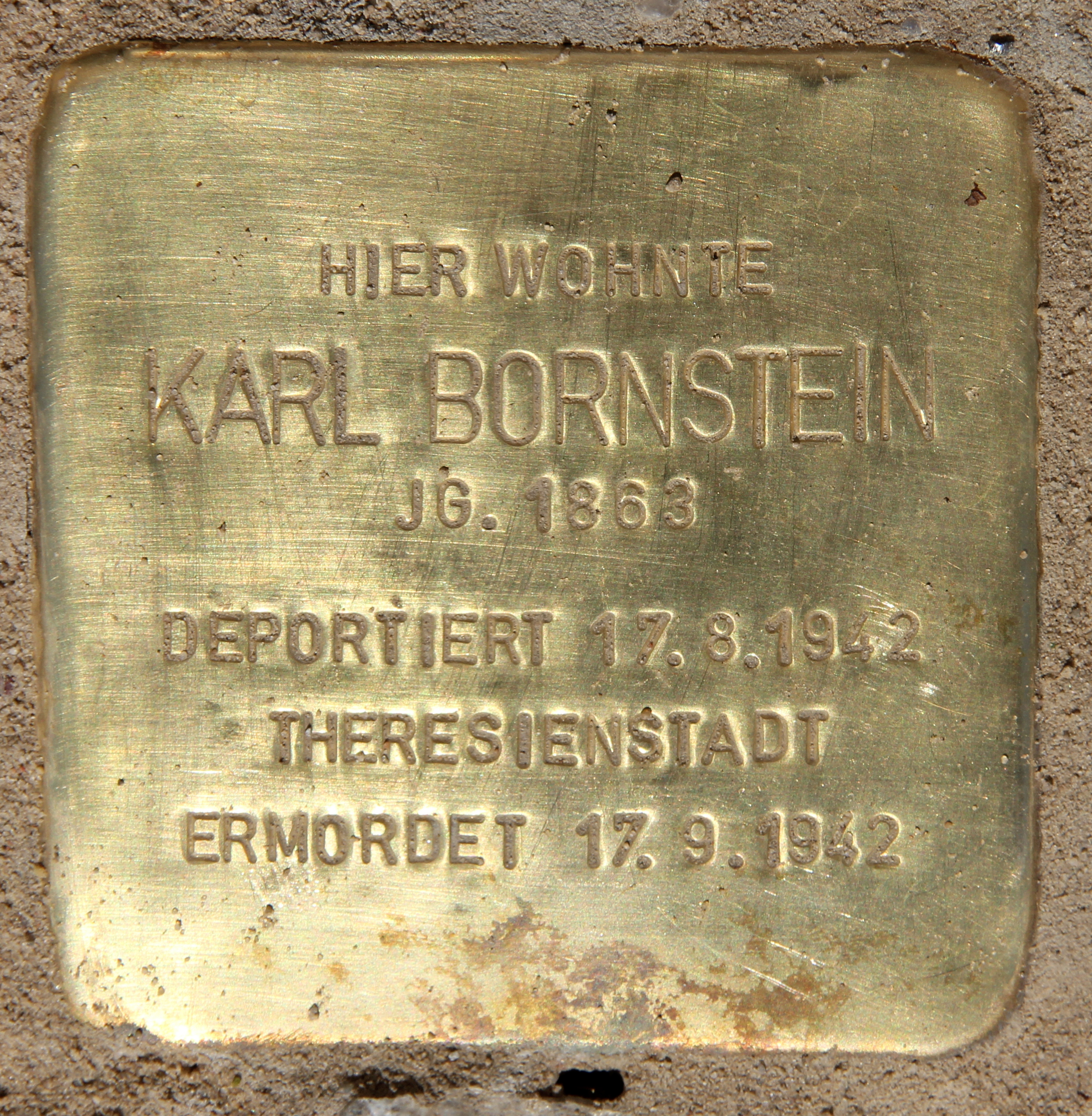 "Stolperstein" (stumbling block), Karl Bornstein, Trautenaustraße 9, Berlin-Wilmersdorf, Germany